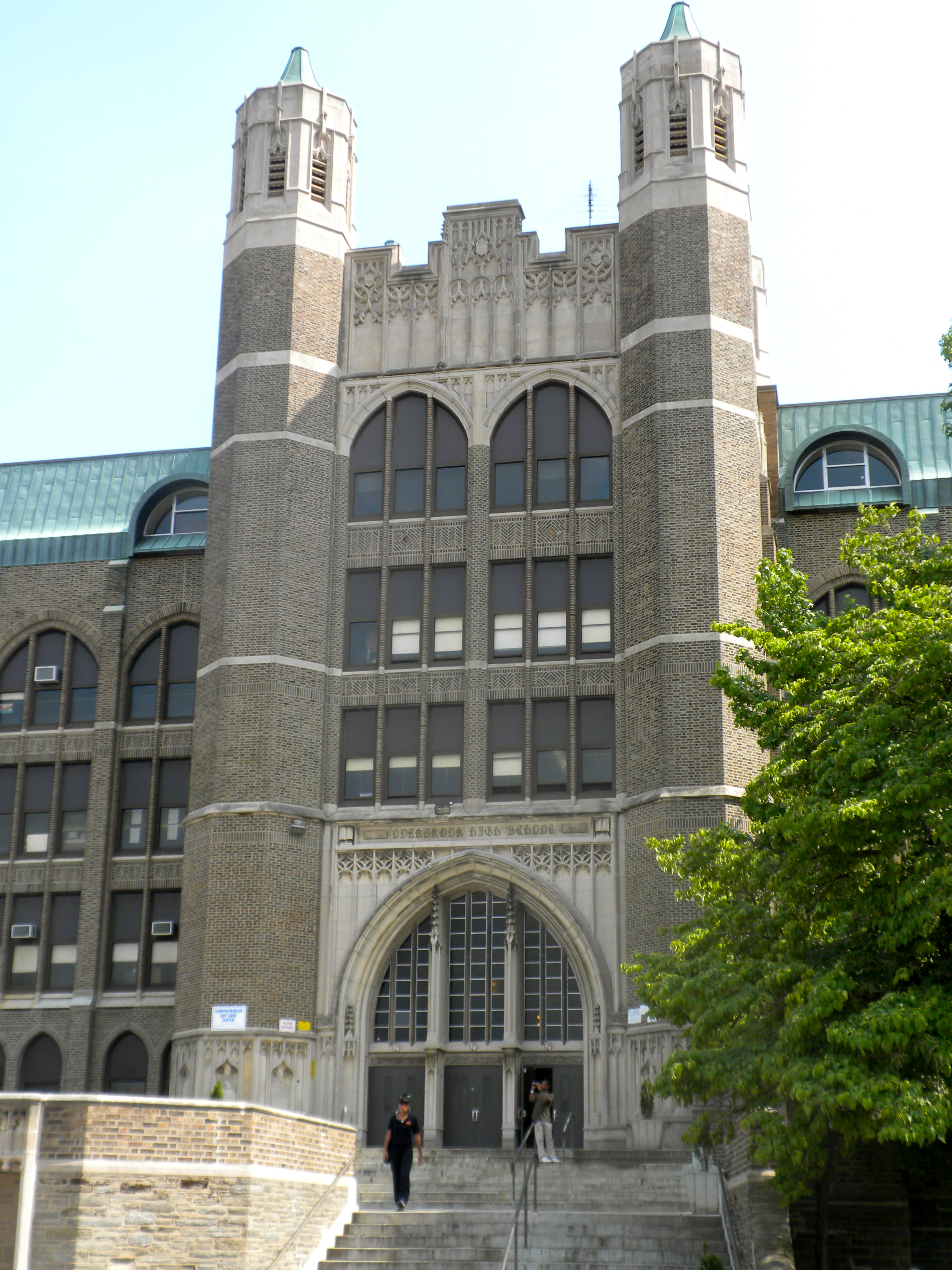 Overbrook High School in Philadelphia on NRHP since December 4, 1986. At 5898 Lancaster Avenue in Overbrook neighborhood of West Philly. Alumni include Wilt the Stilt Chamberlain and actor Will Smith.